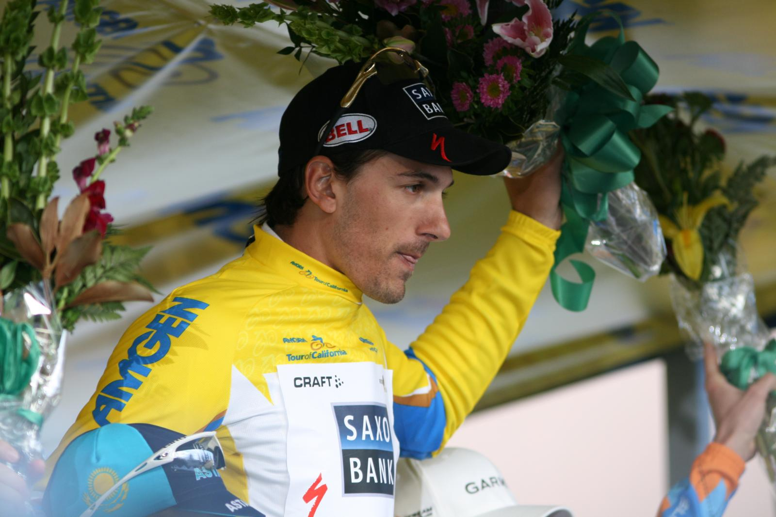 Fabian Cancellara on the podium after his first place finish in the Tour of California Prologue in Sacramento